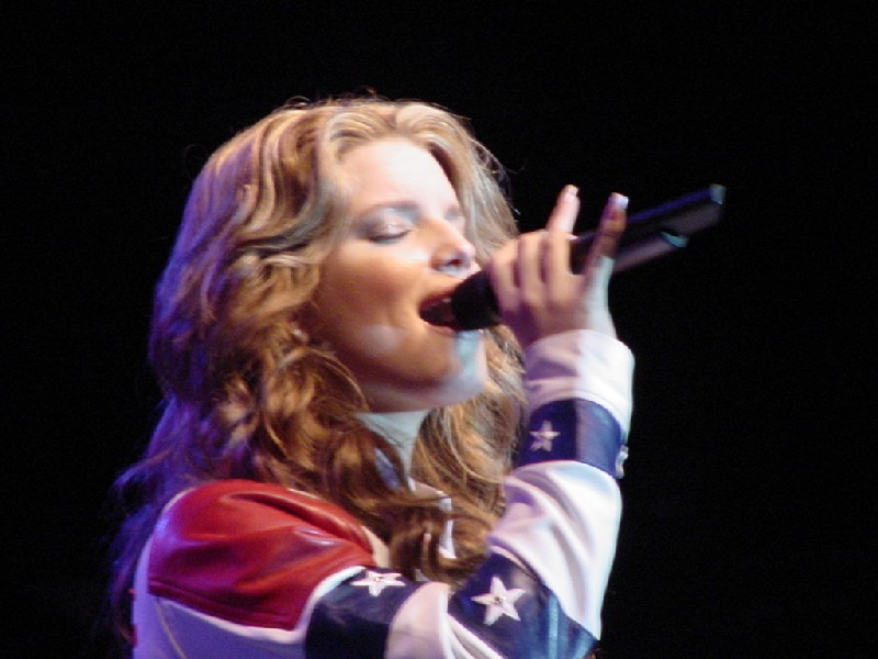 Picture of Jessica Simpson taken during a USO/DoD Celebrity Tour at Eagle Base 14 November 2001.